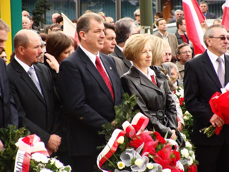 Category:Constitution Day 2011 in Sanok